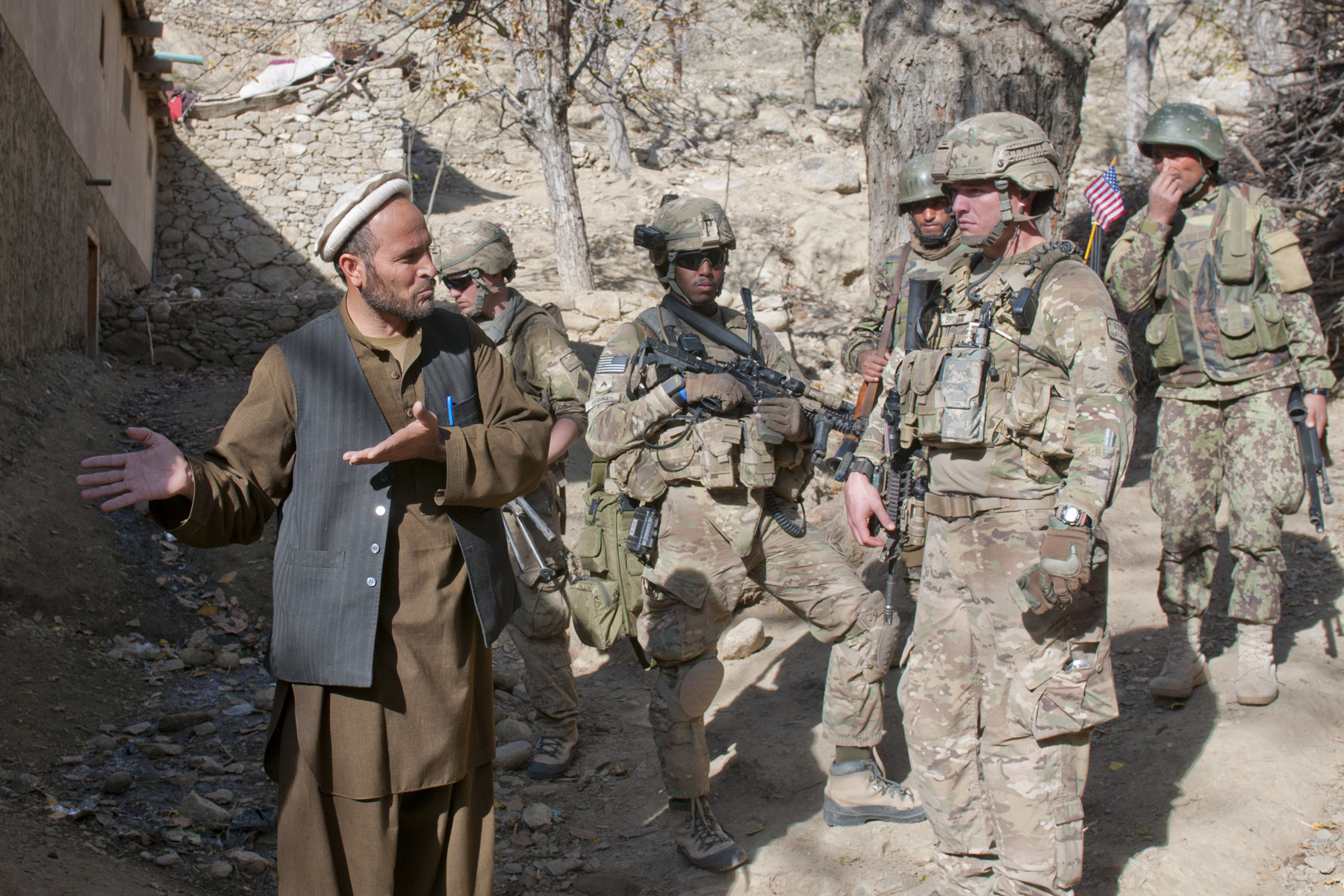 A local Afghan invites soldiers of the Afghan 1st Brigade, 201st Corps, and Company A, 45th Infantry Brigade Combat Team, into his home during partnered operations in Dawlat Shah district, Nov. 20. The operation pushed deep into Taliban territory, forcing many militants out of the area and killed eight with air strikes. (U.S.Army photo by Spc. Leslie Goble, Task Force Thunderbird Public Affairs)